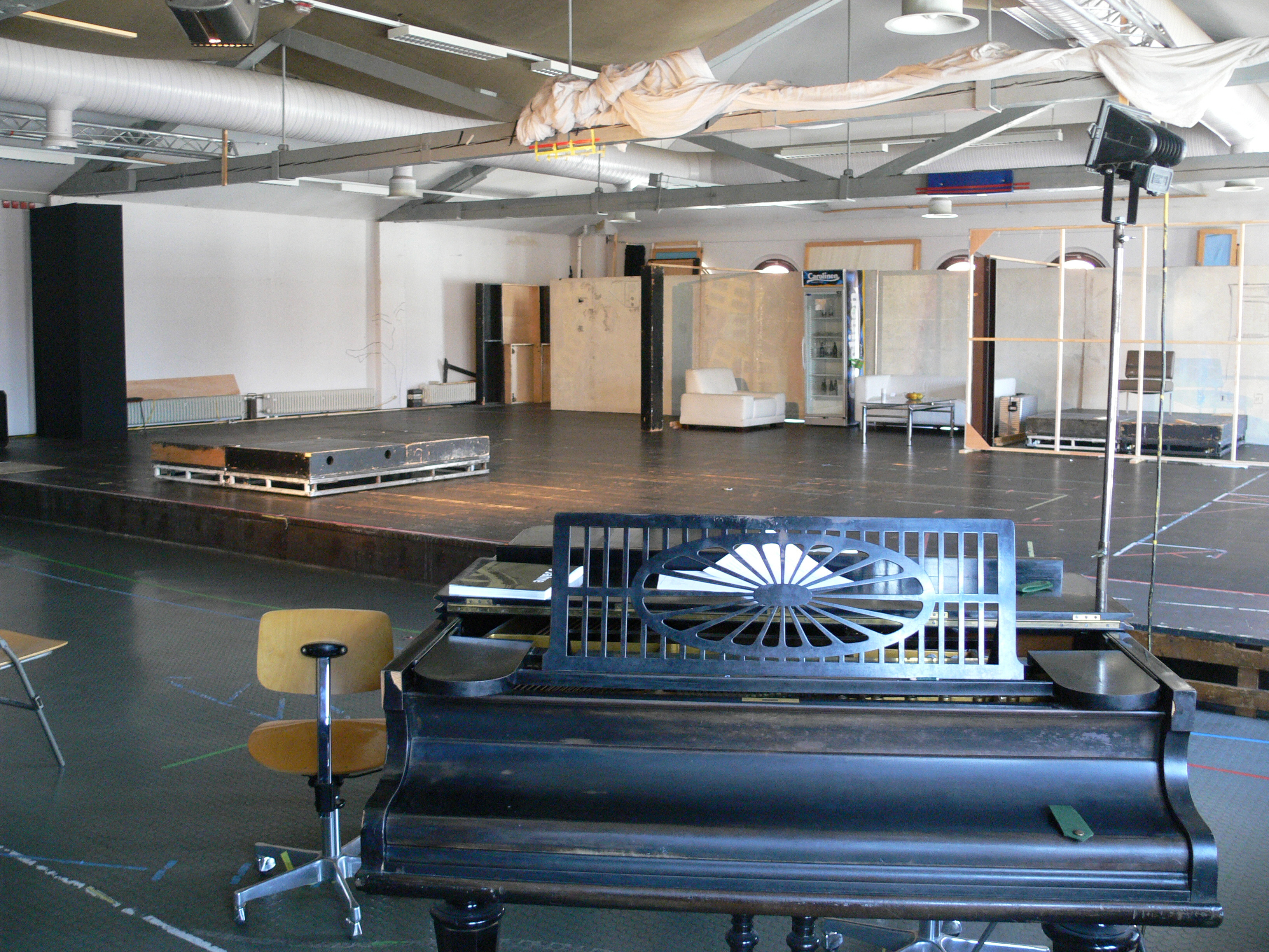 Rehearsal stage of Theater Bielefeld.